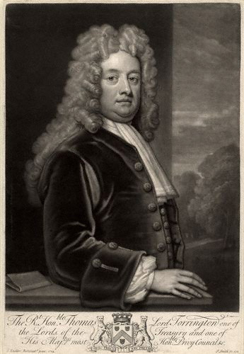 Thomas Newport, Baron Torrington(c1655-1719)